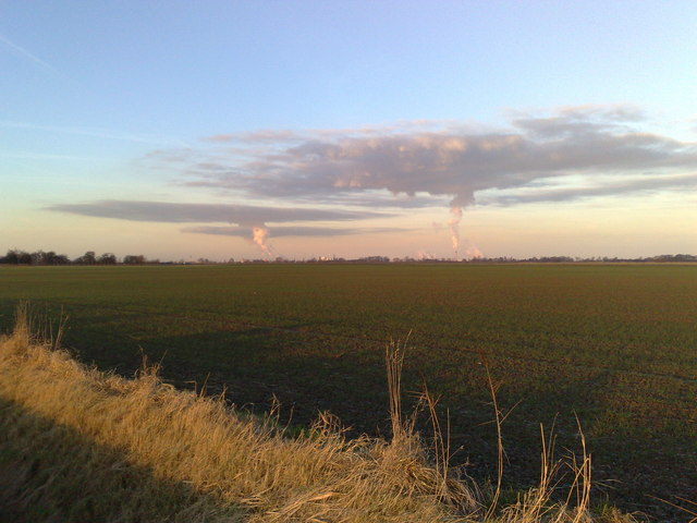 3 power stations January morning